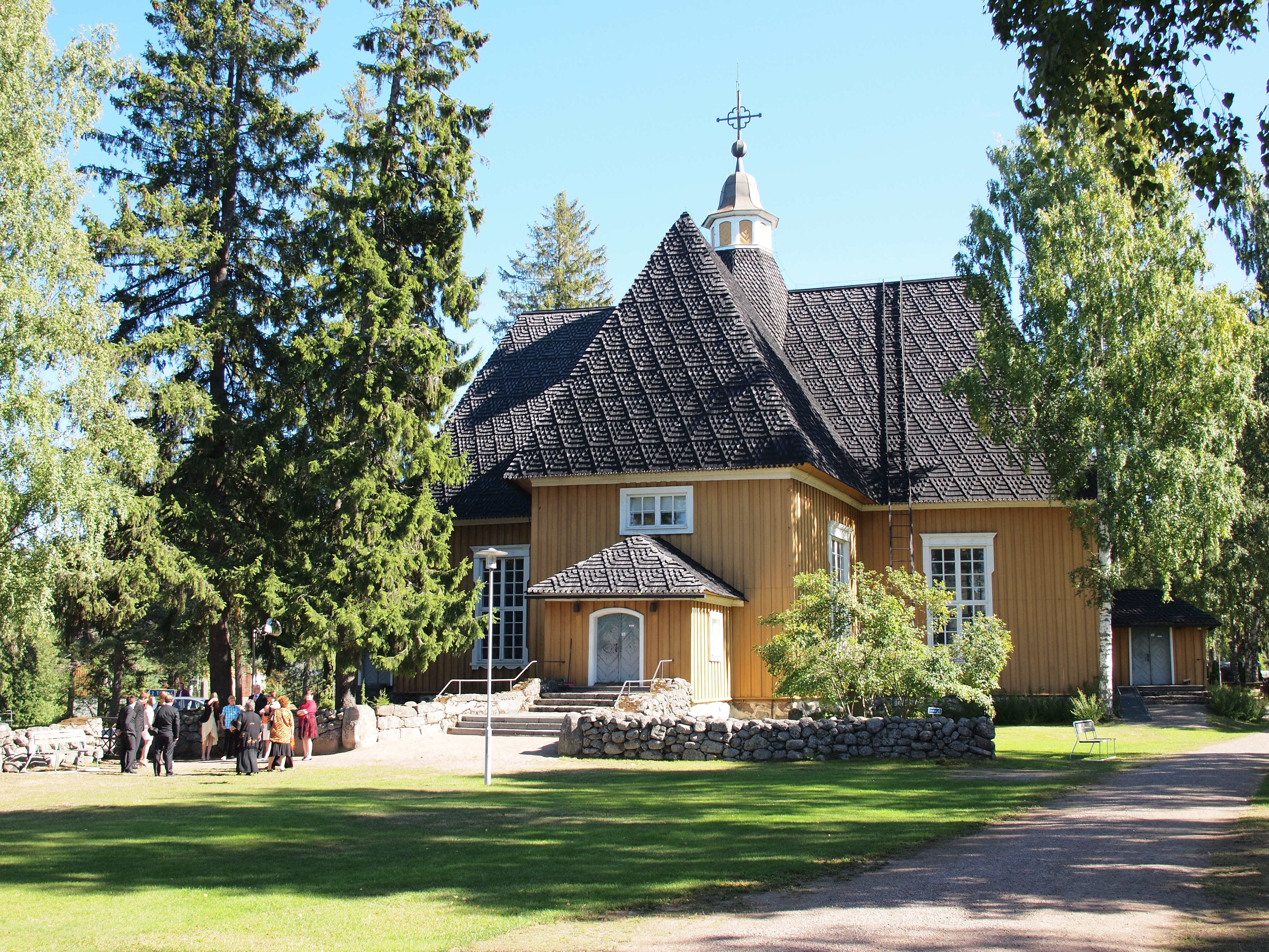 Lemi Church is one of the most significant wooden churches in Finland. It was built in 1786 under the supervision of Juhana Salonen, a famed church builder of his time.